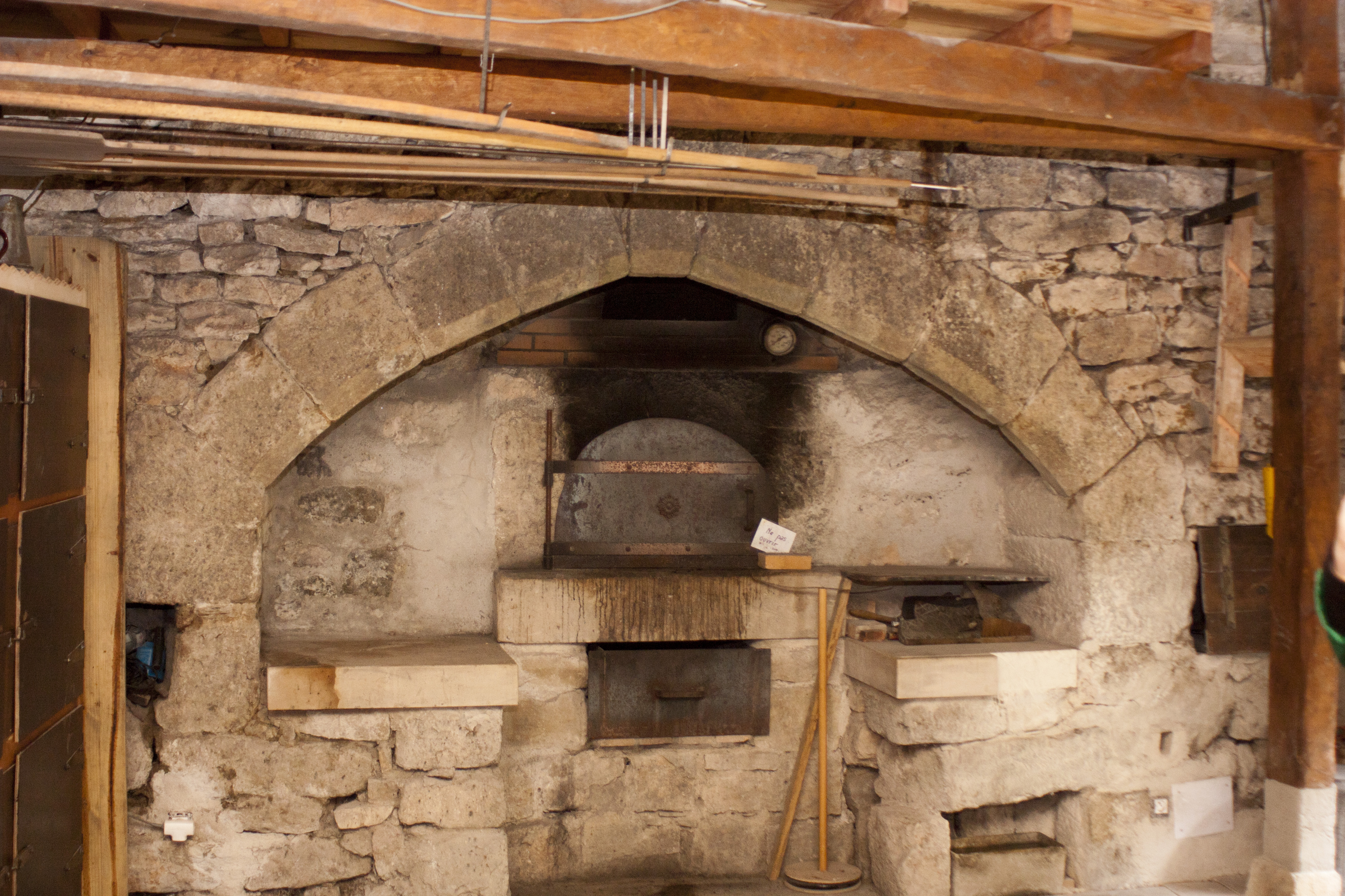 Banal oven , restored and functional.